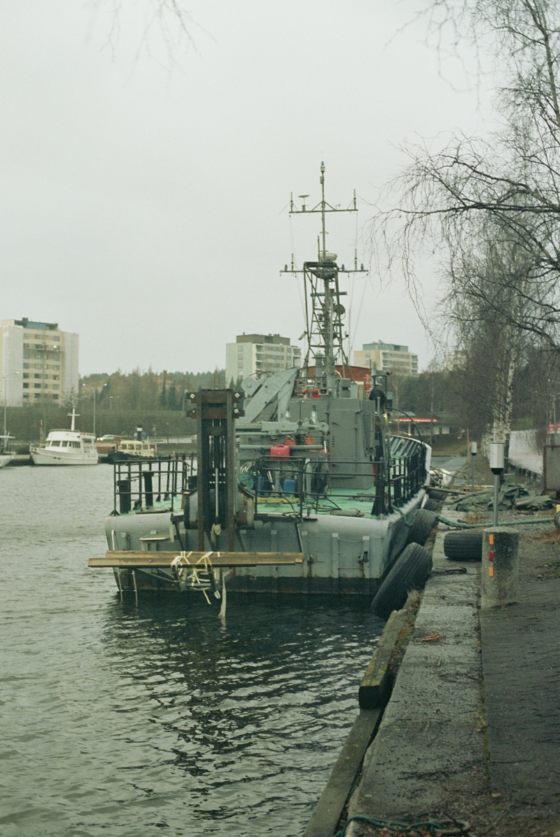 Vartiovene 55, Patrol Boat 55, in Mustalahti Harbour, Tampere, Finland. Formerly known as Röyttä, the R class patrol boat served Finnish Navy from 1959 to the late 1990s. Nowadays it's in private use.